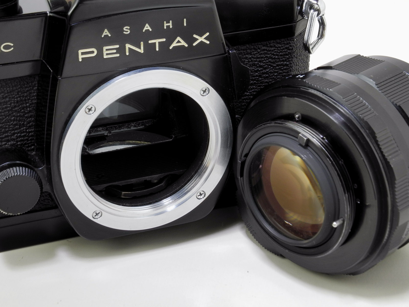 Praktica screw lens mount (Pentax)